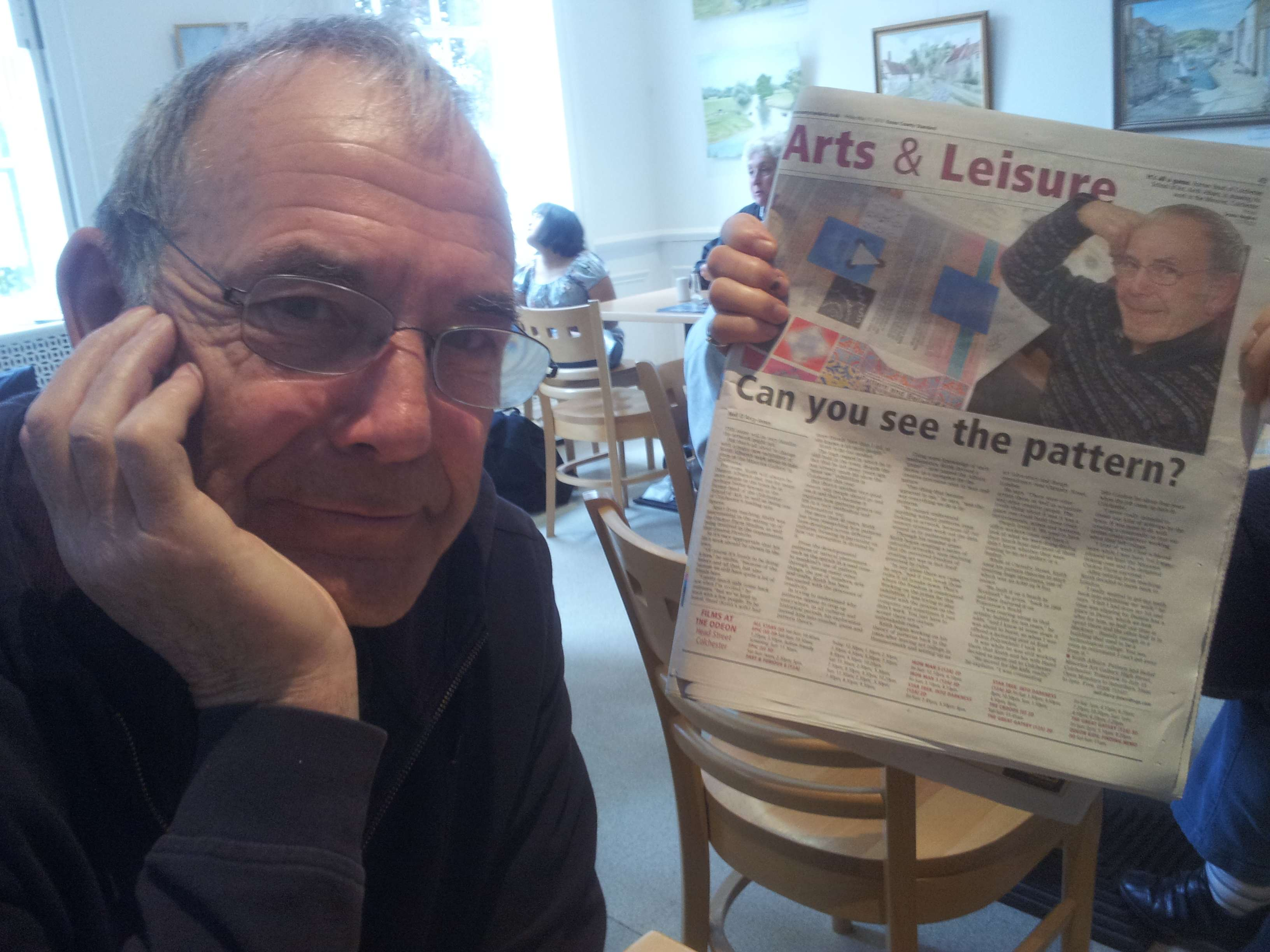 Keith Albarn at the Level Best Cafe in Colchester sitting next to Hazel Albarn who is reading a newspaper with an article about Keith.